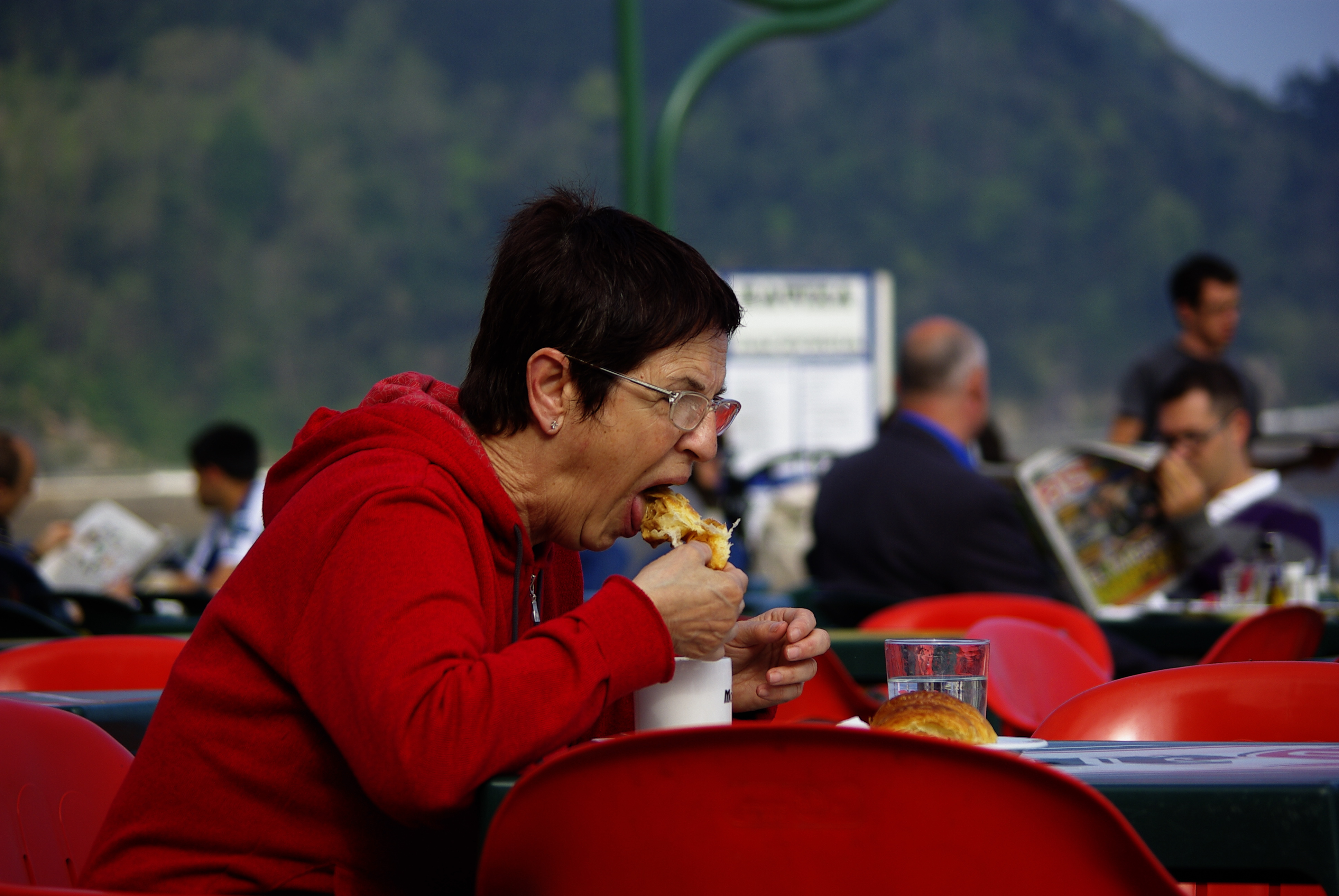 A woman eating a croissant at the Zarautz Photographic Rally XXIX.